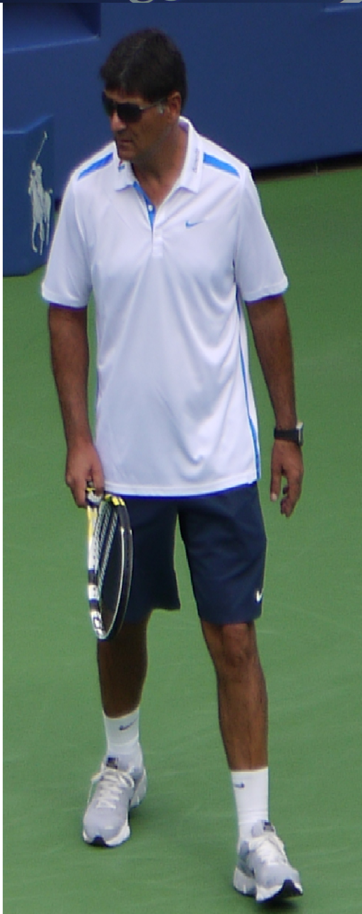 Toni Nadal - uncle and coach of Rafael Nadal